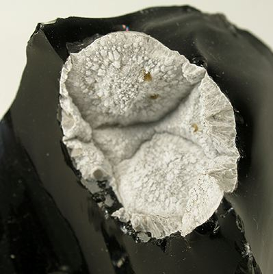 Cristobalite, Fayalite, obsidian Locality: Canyon Butte occurrence (Couger Butte), Canyon Butte, Siskiyou County, California, USA (Locality at ) Size: 5.8 x 5.8 x 4.4 cm. A visual and showy specimen of a 2.5 cm "eye" of high-temperature cristobalite nicely set in highly lustrous, jet-black obsidian from an uncommon California locale - the Couger Butte, Siskiyou County. The "eye" has three clusters of gemmy, olive-green, micro-blades of fayalite, an olivine group mineral. Obsidian (volcanic glass) cools too quickly to crystallize. Thus, it is unusual to see minerals attached. The "eyes" or spheres of high temperature cristobalite (SiO2) are actually the result of devitrification, or loss of silica from the obsidian.